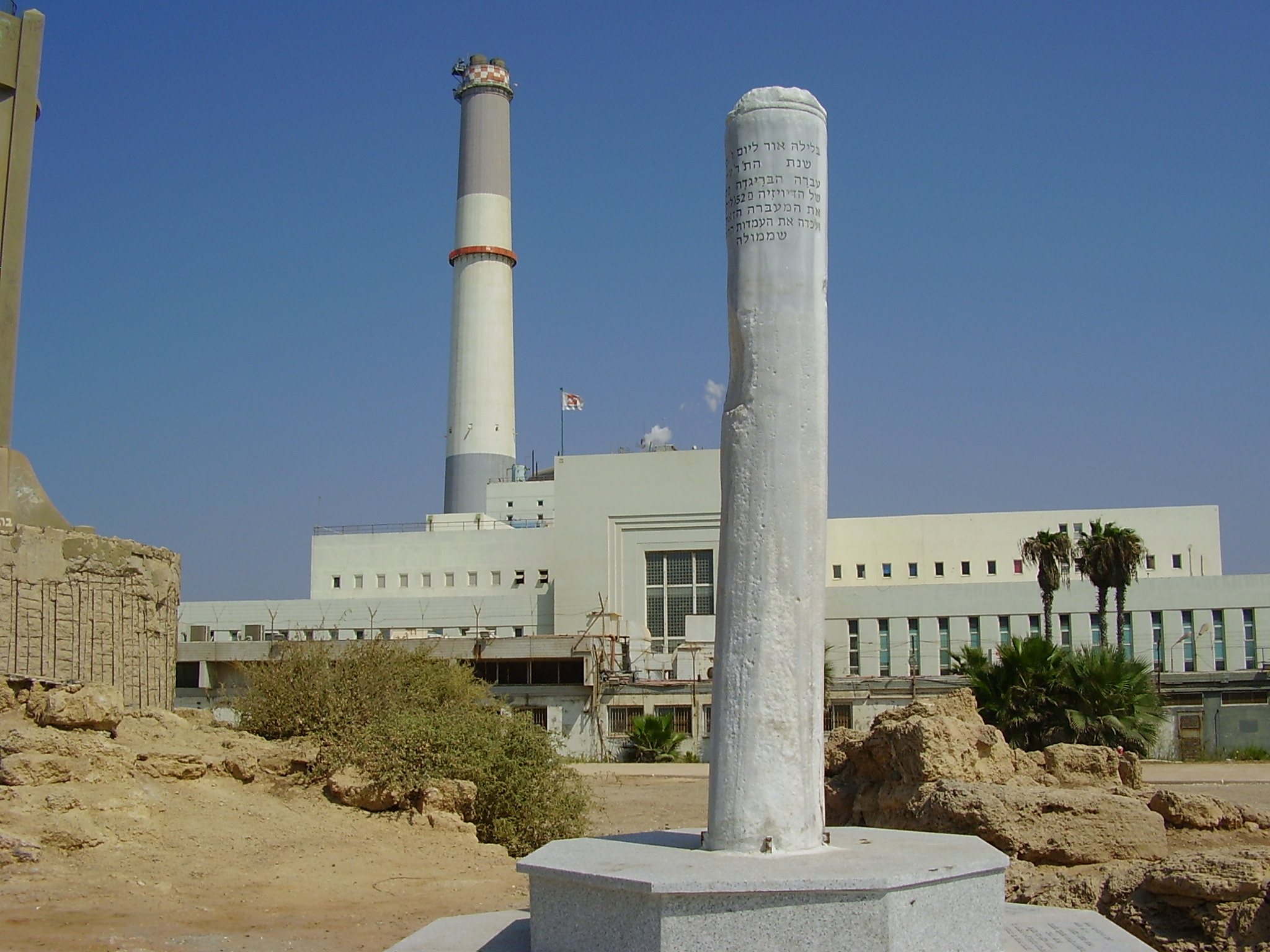 world war 1 memorial of british soldiers, tel aviv